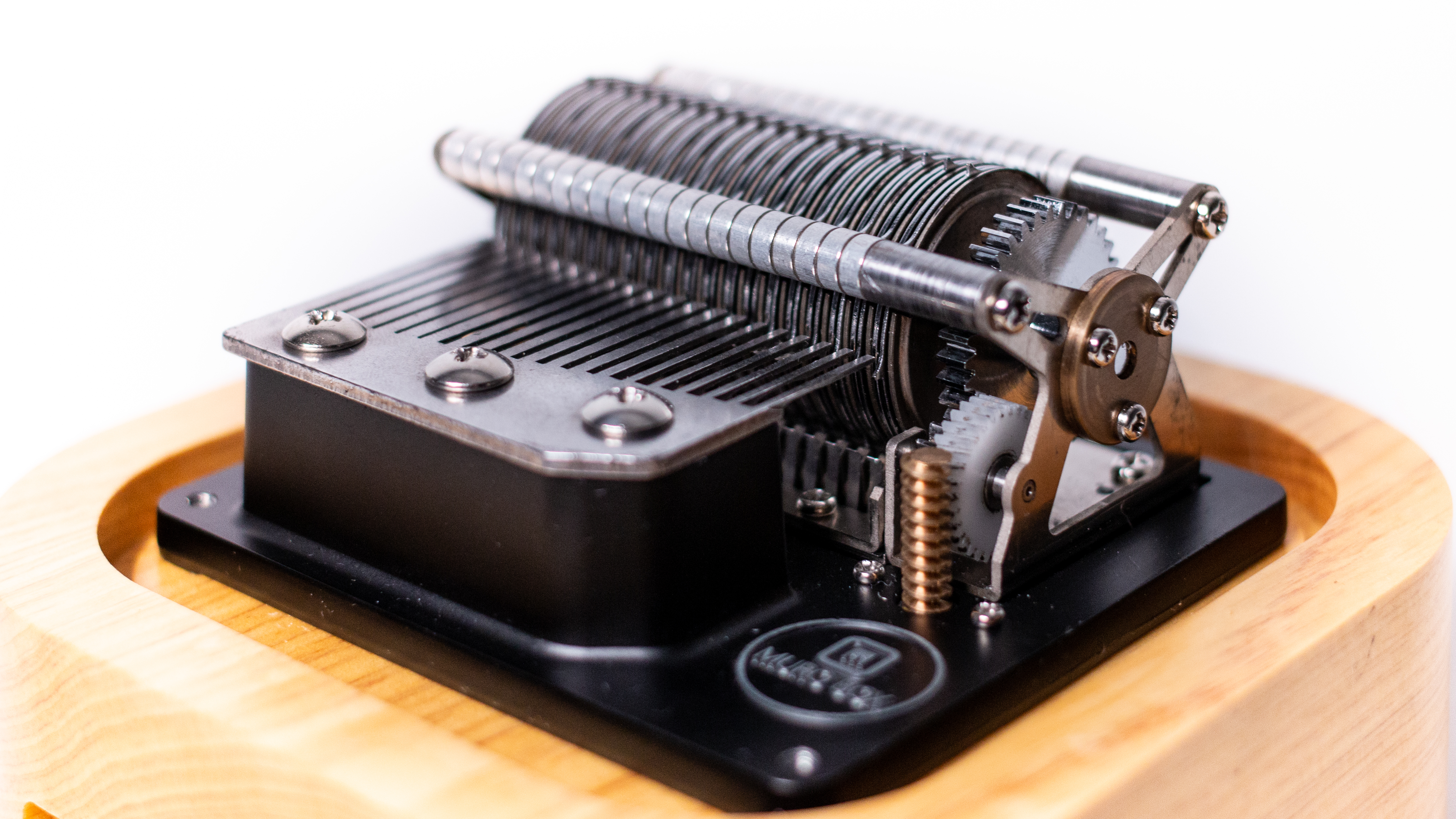 Muro Box, the first app-controlled music box.